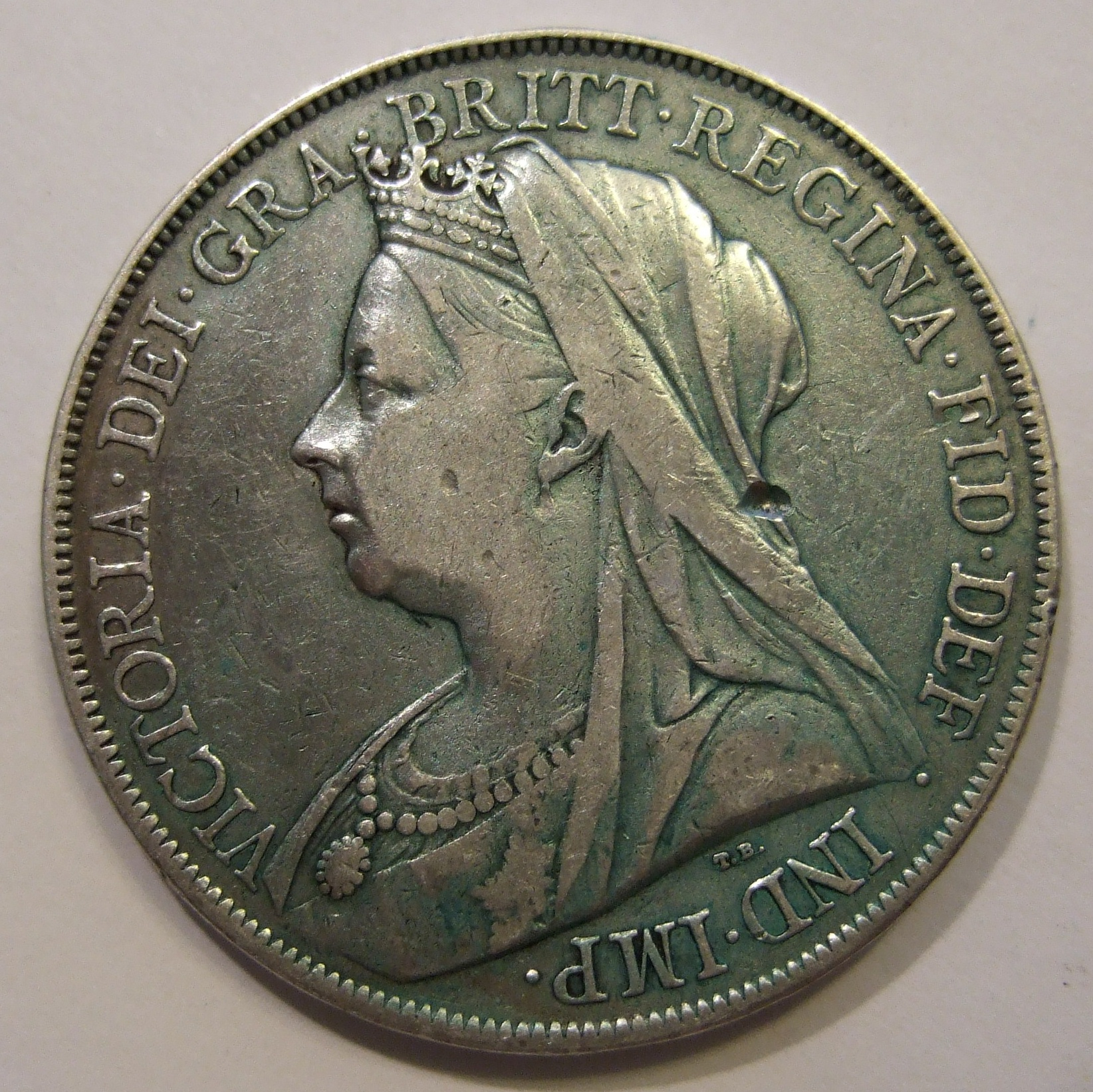 BRITISH COIN